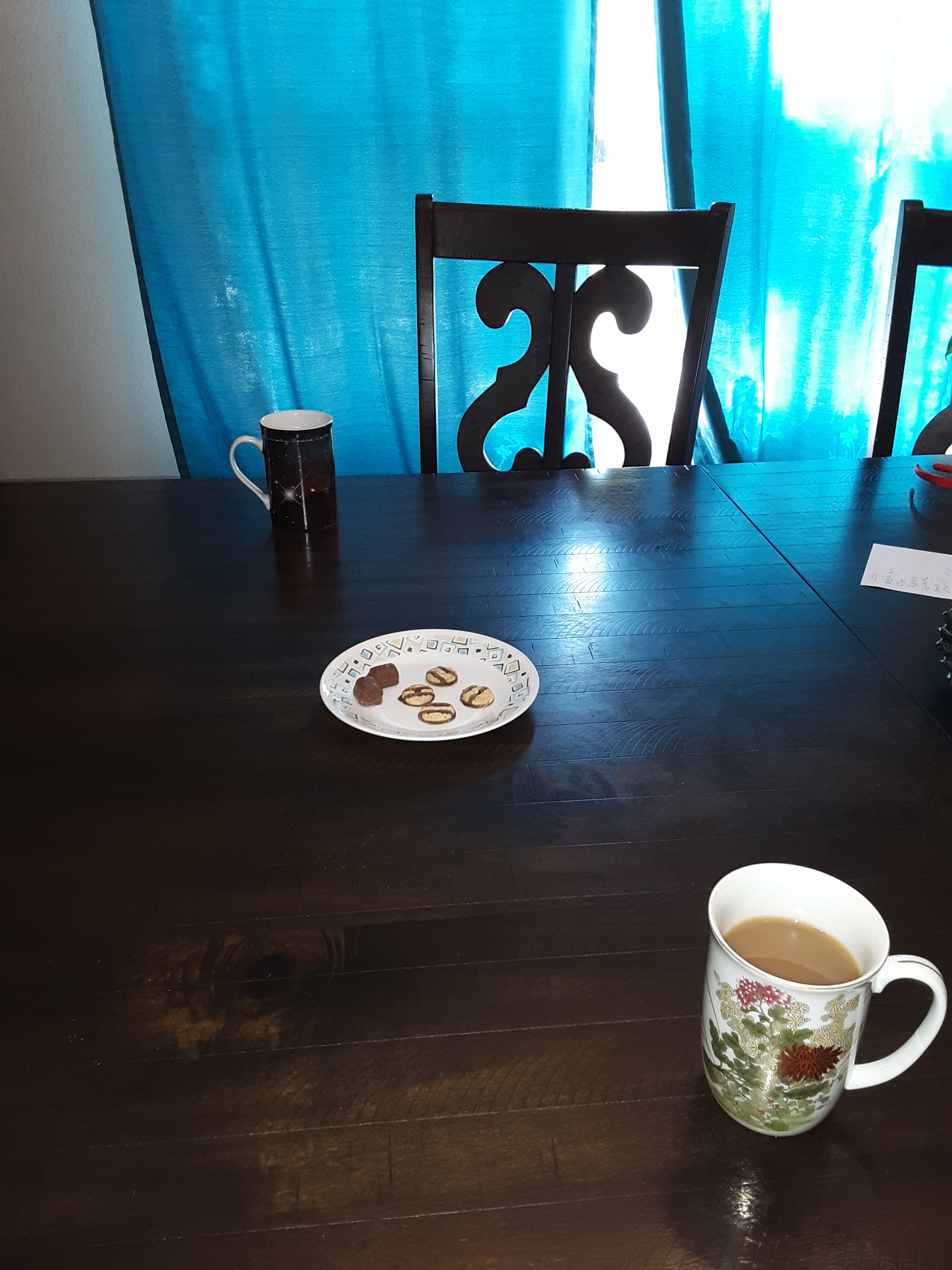 Elevenses at a table